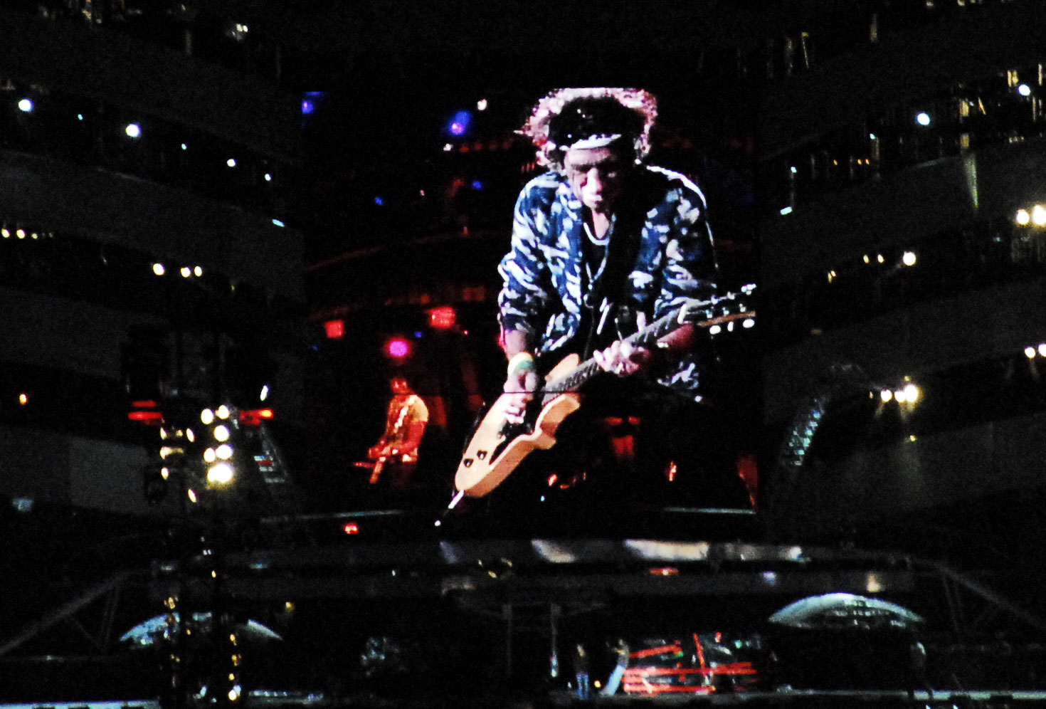 The Rolling Stones in Austin -- sound check -- October 21, 2006. See more music photos at . Photo by Steve Hopson.